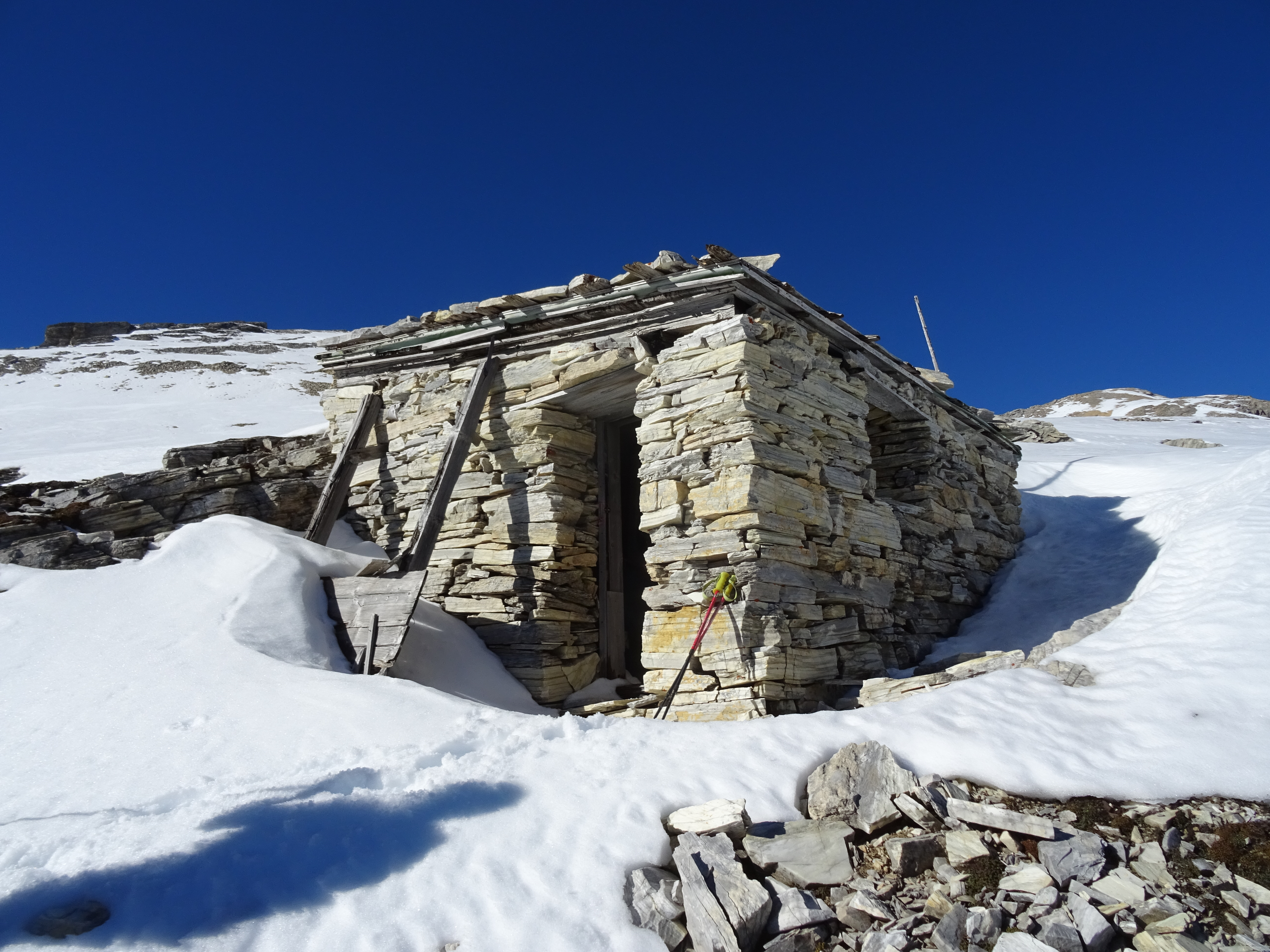 Stone hut from First World War below Usser Wissberg (Surses, Grison, Switzerland)